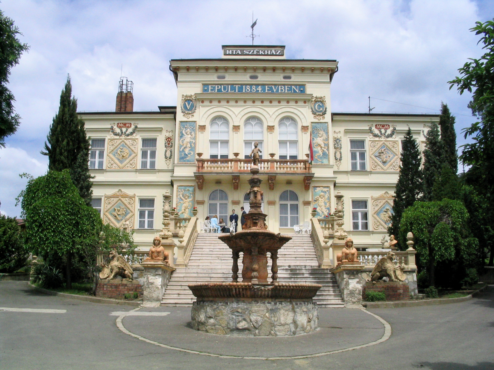 MTA building in Pécs